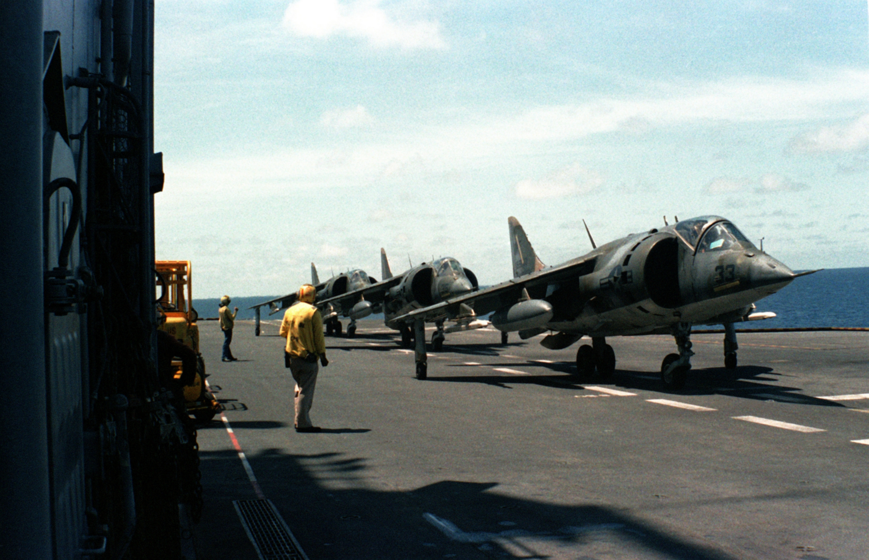 Three U.S. Marine Corps Hawker Siddeley AV-8A Harrier aircraft from Marine Attack Squadron VMA-513 Flying Nightmares prepare to take off from the amphibious assault ship USS Belleau Wood (LHA-3). The aircraft were temporarily assigned to Composite Squadron 165 (VC-165).